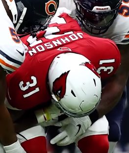 David Johnson in 2018